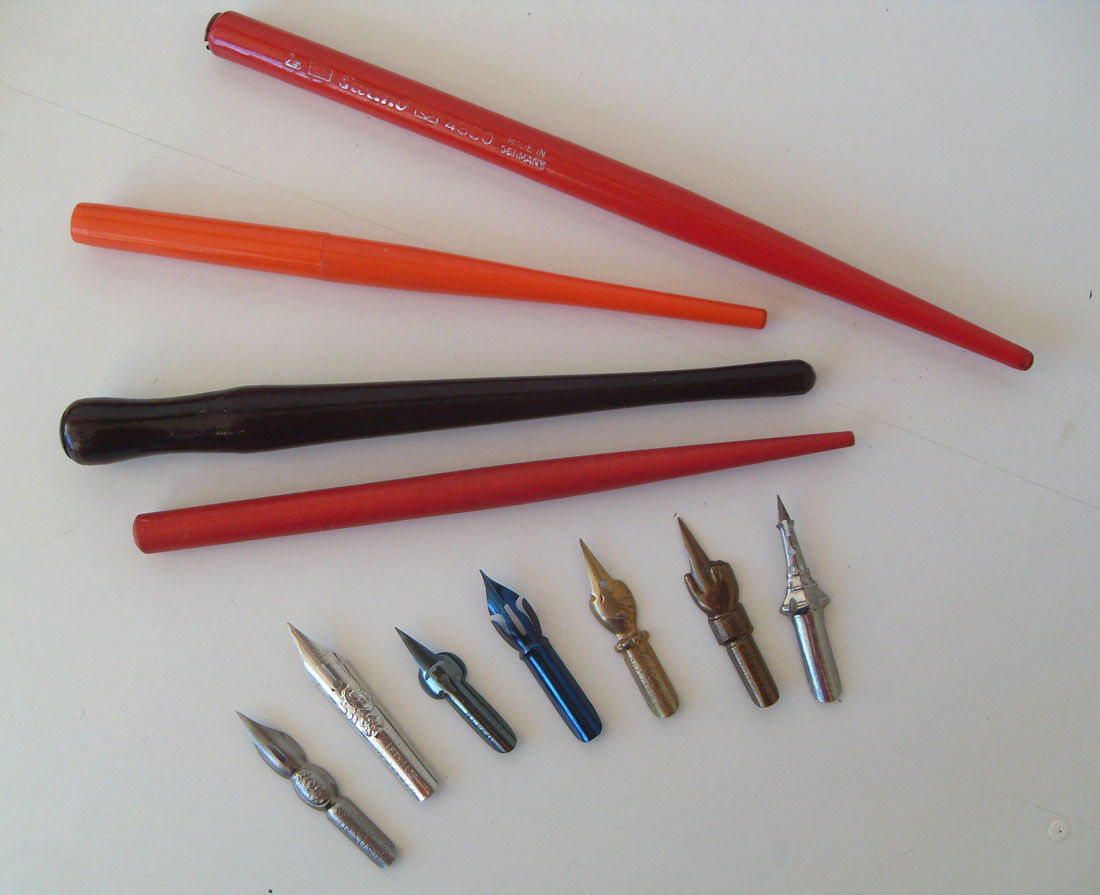 Various dip pens and penholders.